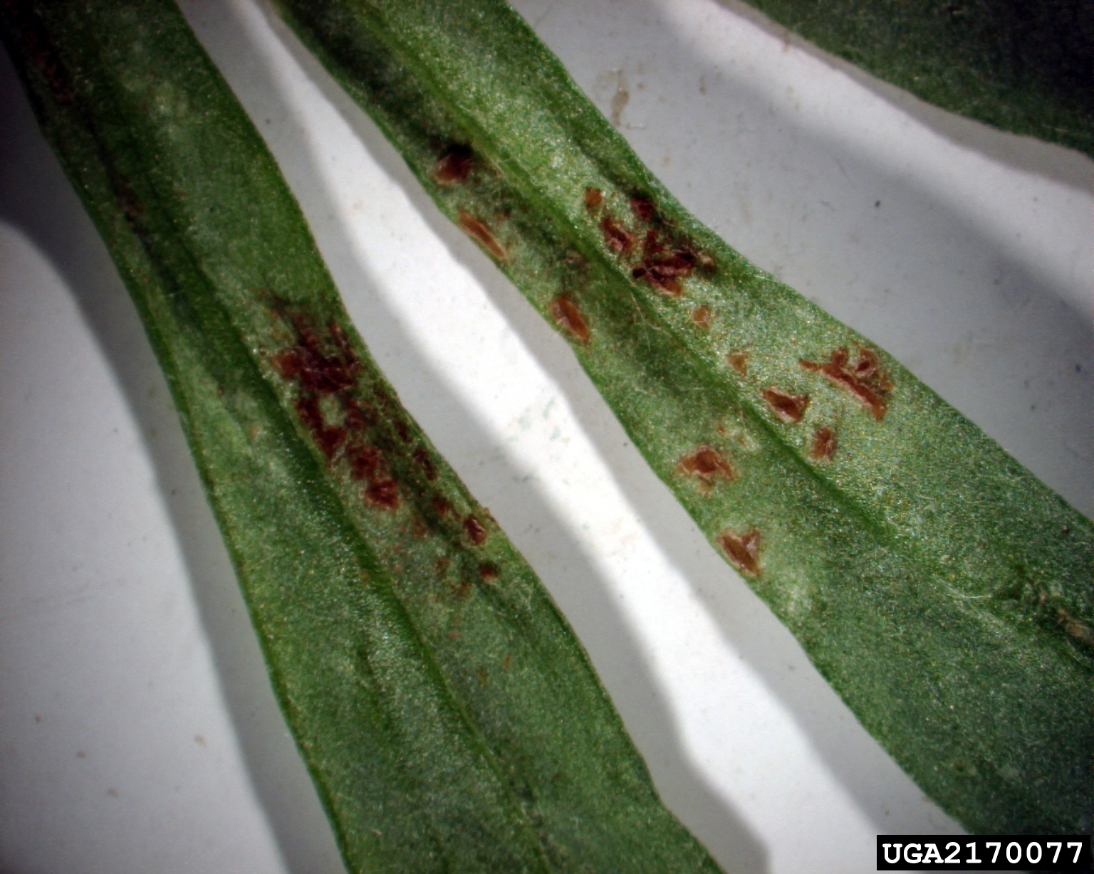 brown rust Puccinia tanaceti DC. Host: tarragon (Artemisia dracunculus L.)